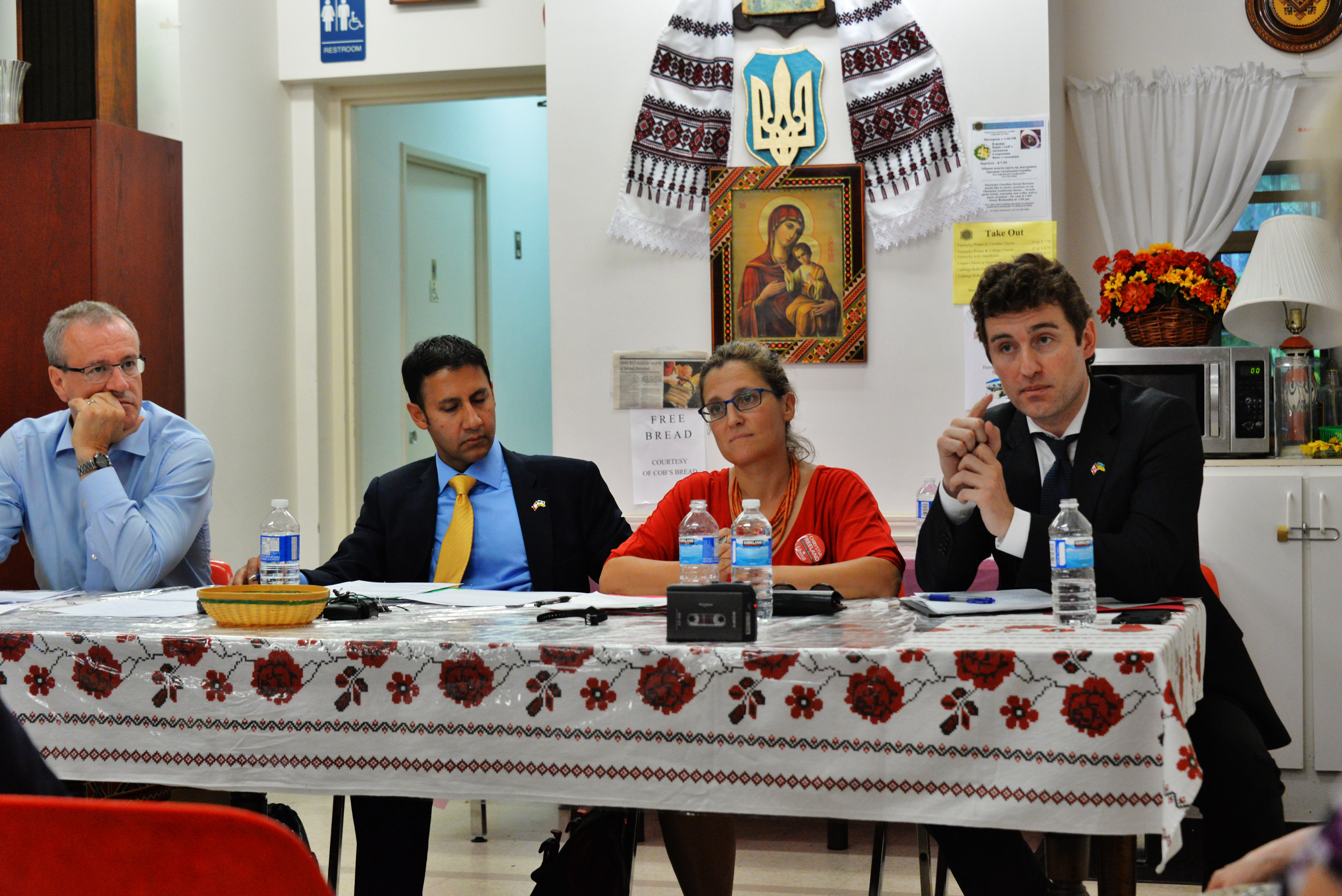 Borys Wrzhesnewsky, Arif Virani, Chrystia Freeland and Yvan Baker on electoral meeting in Ukrainian Canadian Social Services, Toronto branch